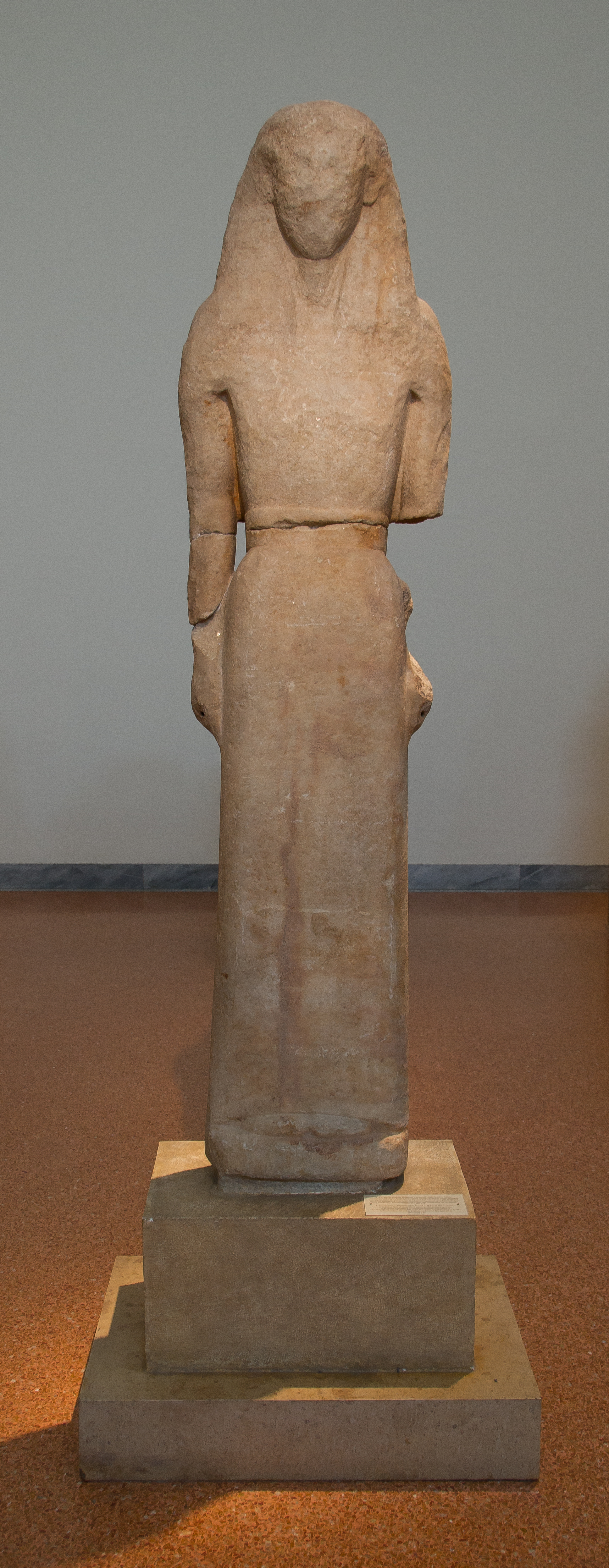 Female statue. Island marble. Found in Delos, in a sanctuary of Artemis. One of the earliest monumental statues in stone, it probably represents the goddess Artemis. To the left thigh of the statue is an inscription, dedication to Apollo by the Naxian Nikandre. Daedalic style. Ca.650 BCE. N°1